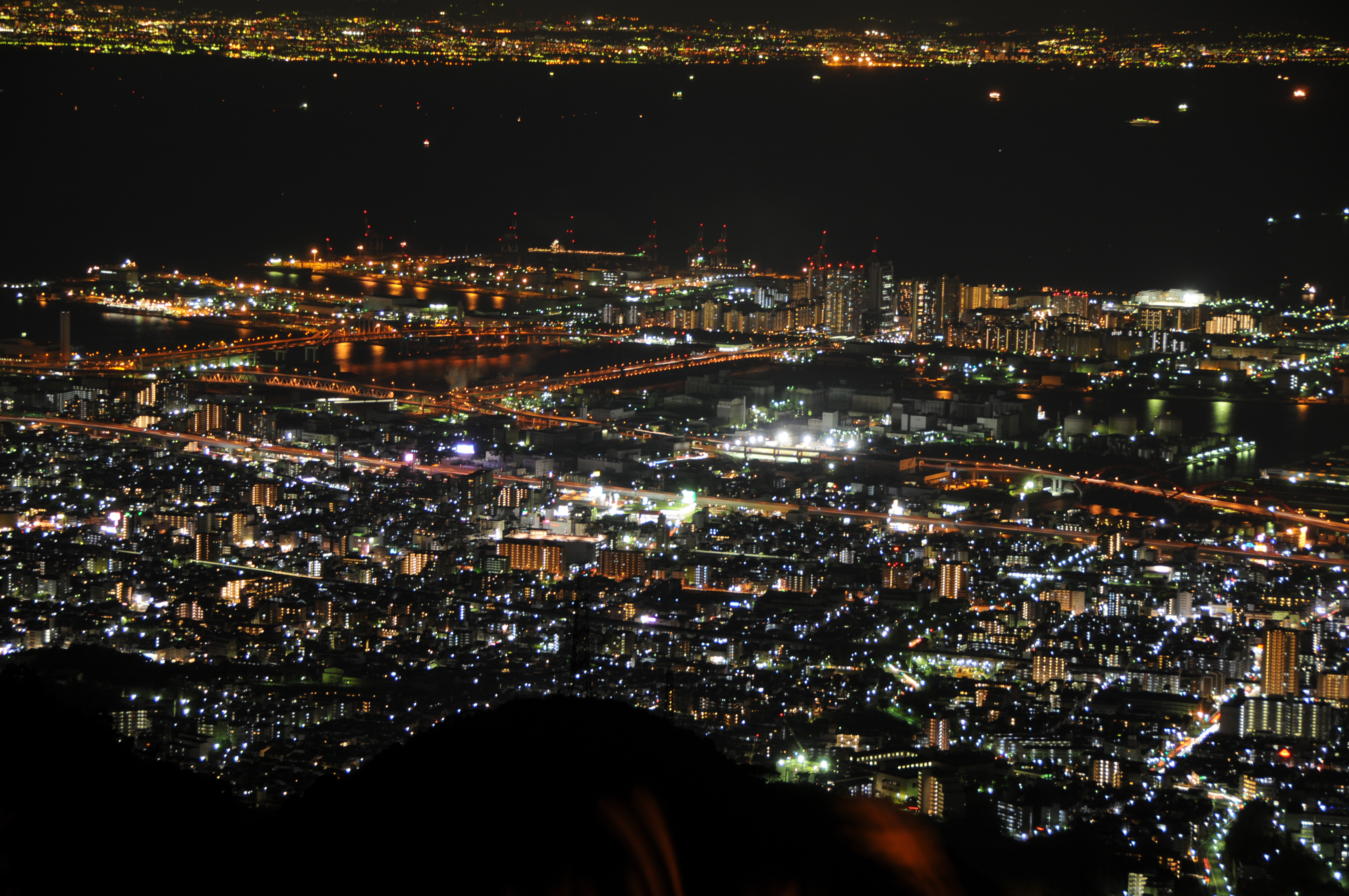 Night view of Rokko Island in Kobe, Hyogo Pref. / Japan (Million-Dollar-View). Photo taken by myself. Author:OsakaJo